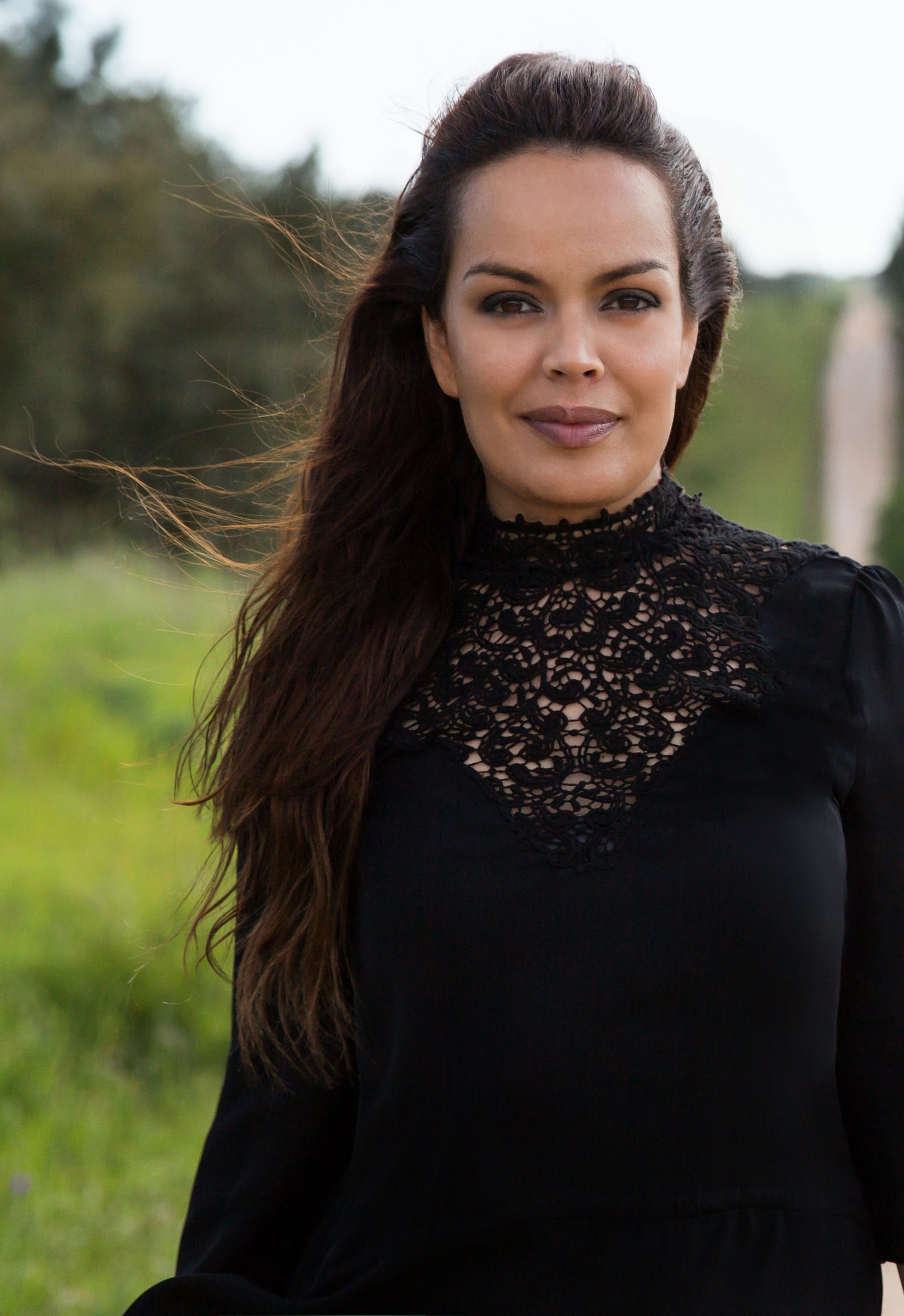 Rita Damásio- Lançamento Peregrina 2017/ 2018